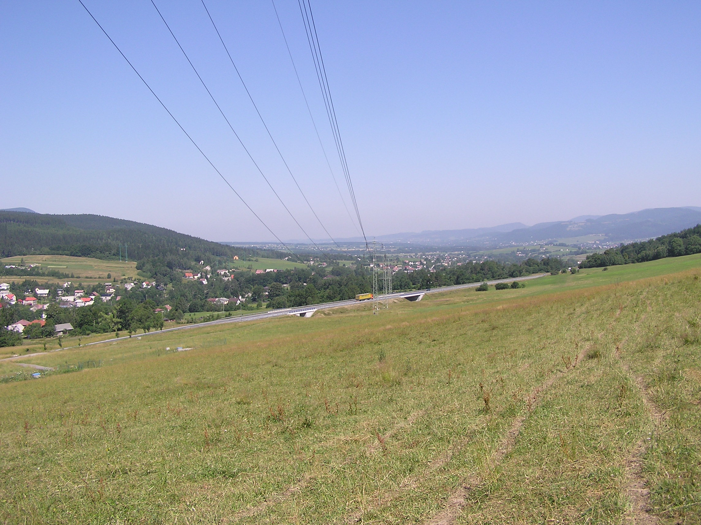 Jablunkov Pass seen from the slopes of Girová mountain, Beskids; 110 kV power line